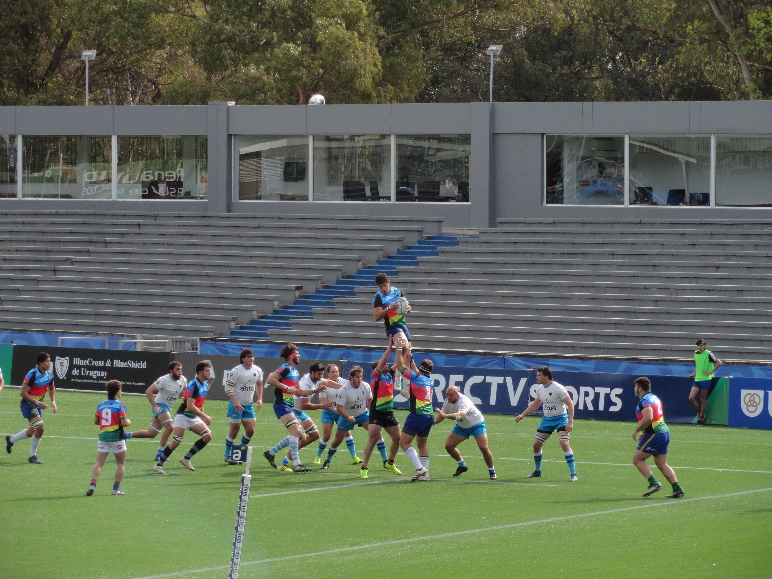 Rugby union match between Uruguay (Los Teros) and Sudamérica XV, held at the Estadio Charrúa in Montevideo, Uruguay as warm-up for the 2019 Rugby World Cup, .